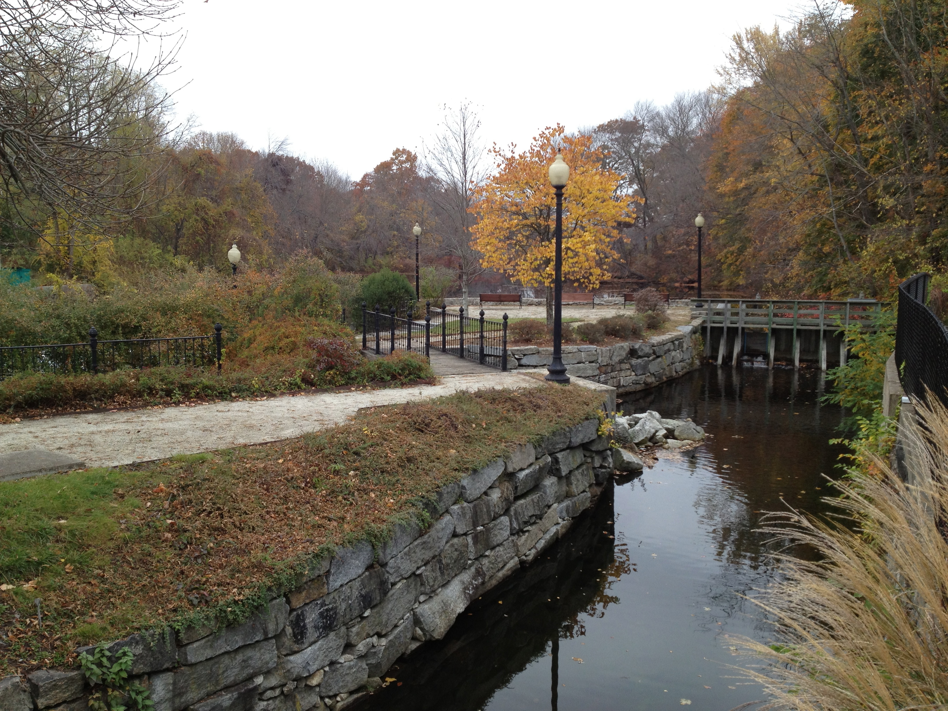 Effingham Capron was a leading anti-slavery advocate at the local, state and national levels. He was an industrial mill pioneer in the historic Blackstone River Valley at Uxbridge, Massachusetts. The park in his name is in downtown Uxbridge, MA, opposite the factory that his family built and owned.